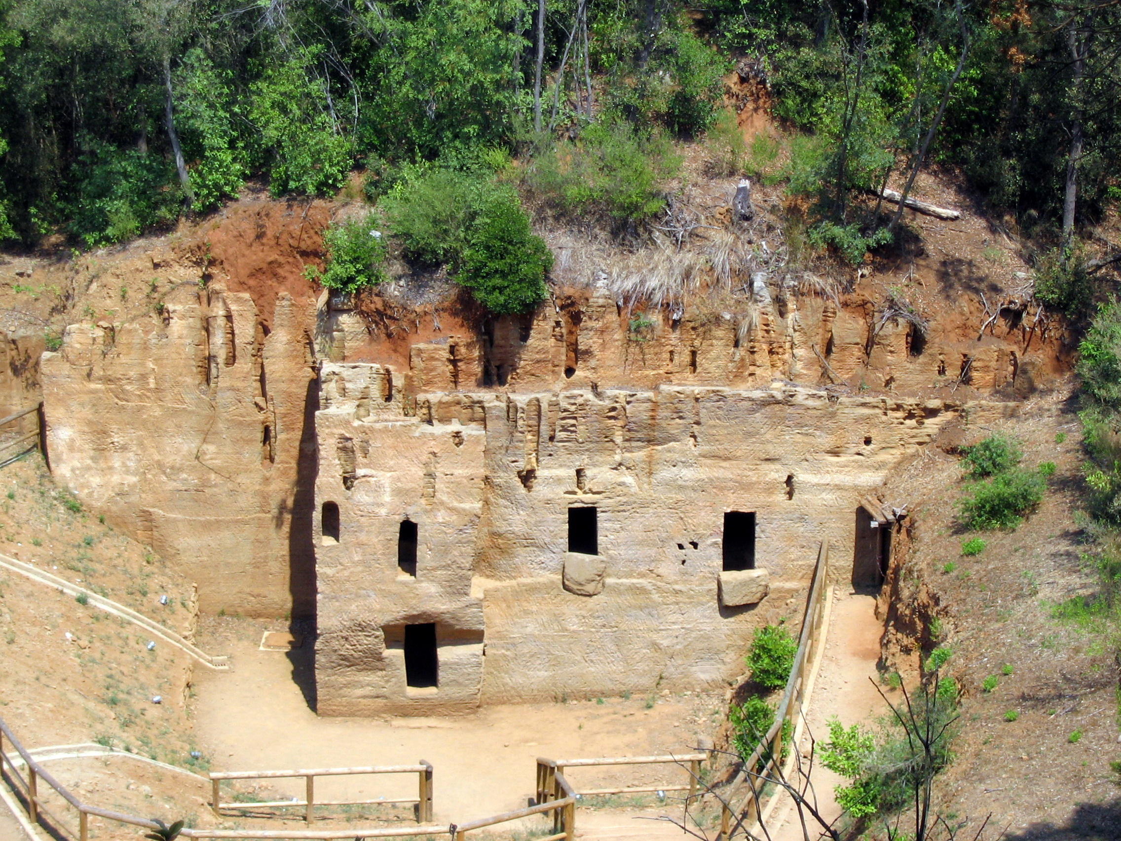 Populonia, Italy. Cave necropolis, known as "Necropoli delle grotte".